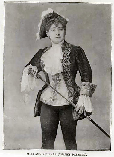 The actress Amy Augarde (1868-1959) photographed in a review of 'Little Jack Sheppard' - 'The Sketch', 5 September 1894, pg. 285